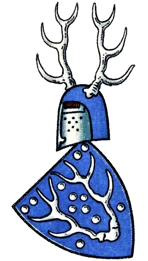 Coat of arms of the Counts of Dassel, ca. 12th century. Drawing by Prof. Ad. M. Hildebrandt.